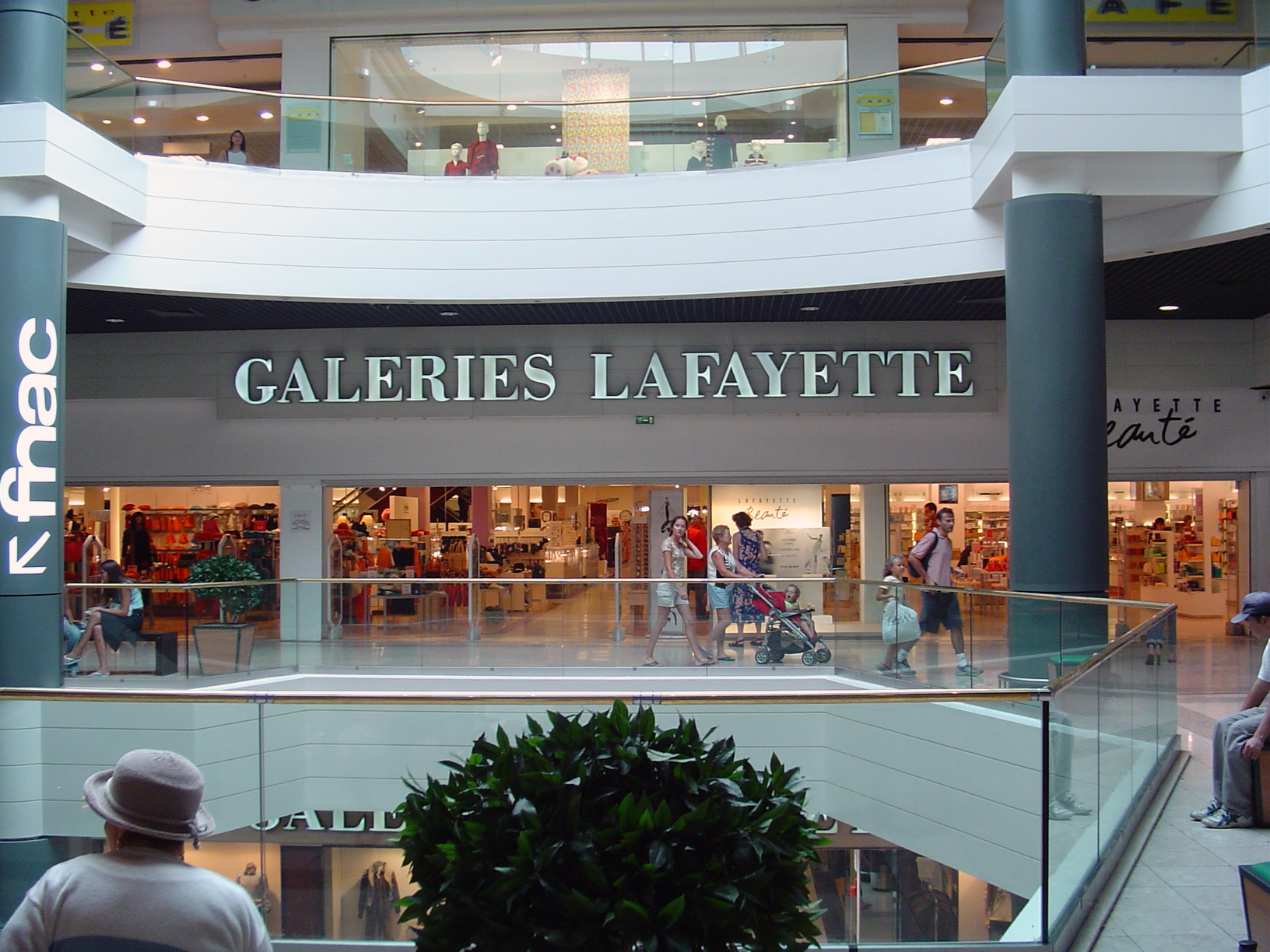 Galeries Lafayette in Montpellier, Hérault, France.